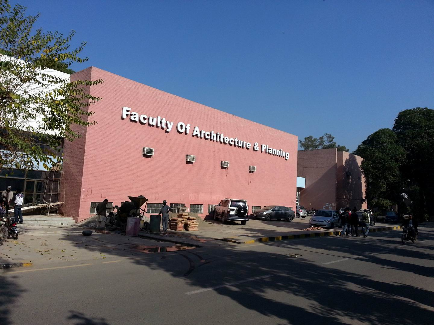 UET Department of Architecture